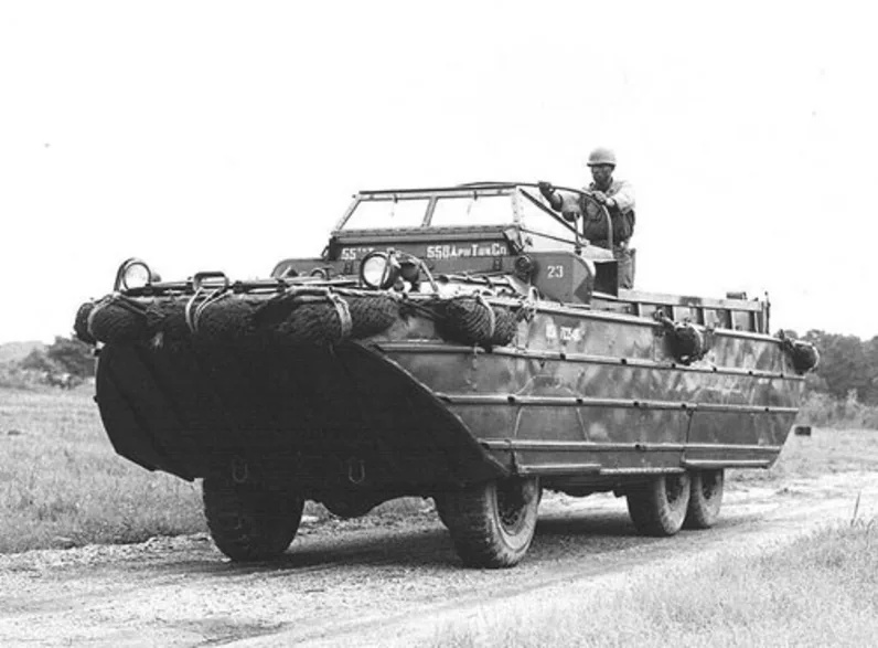 DUKW on a road during World War II.